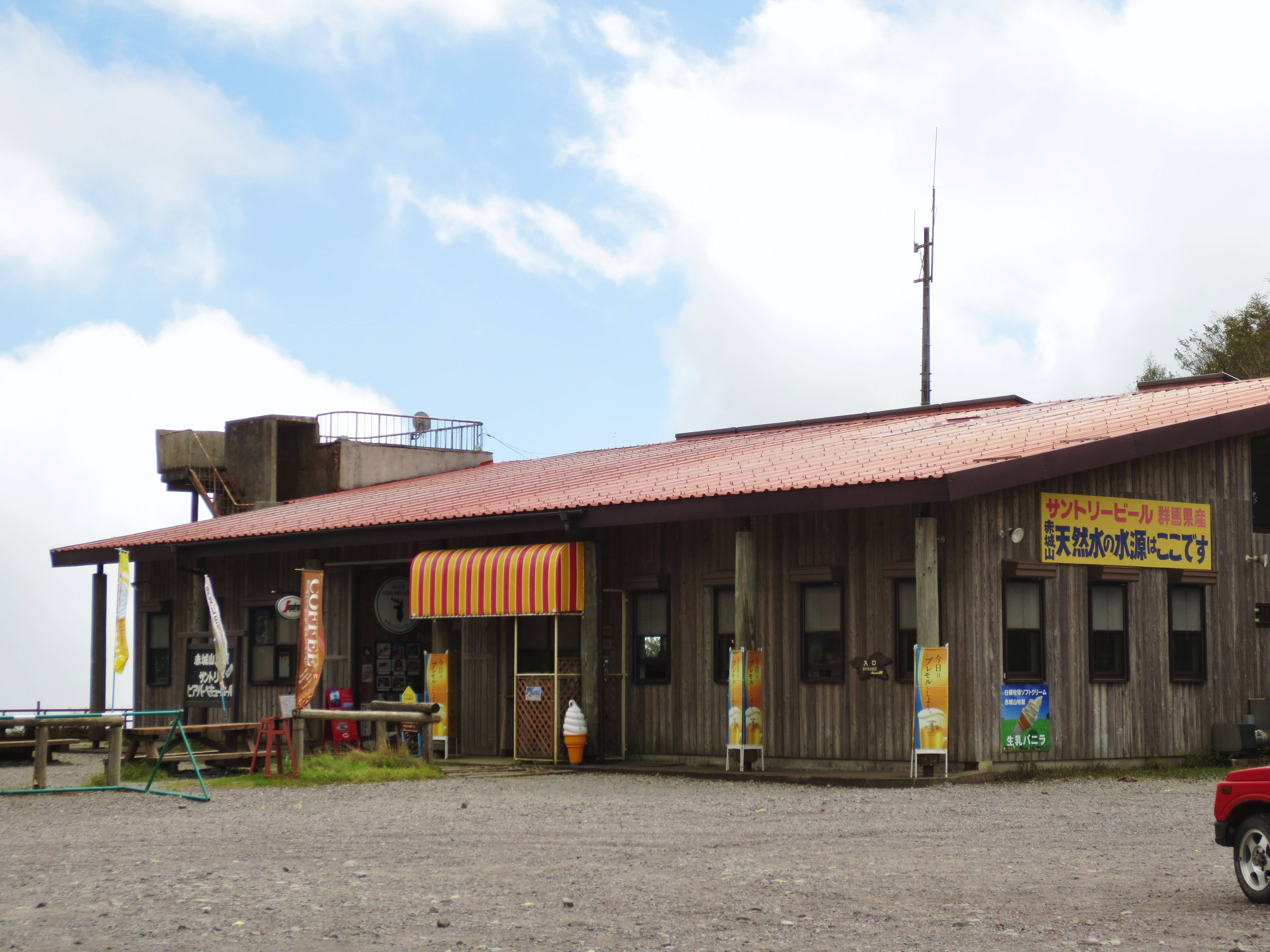 Akagi-sancho Station.